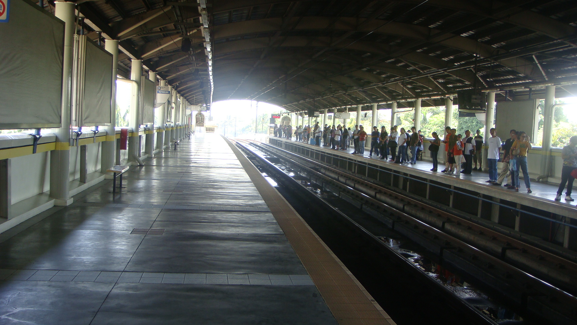 MRT-3 Magallanes Station Platform Area